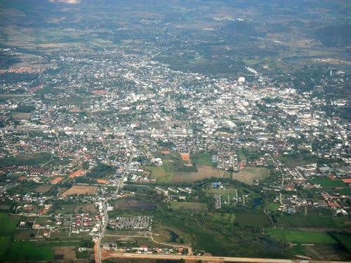 the city of chiangrai.